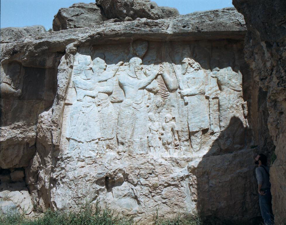 Sassanid relief at Naqsh-e Rajab, Fars, Iran ; 3rd century CE. Relief showing the investiture of Ardeshir I (center left) receiving the ring of power and the diadem for the god Ahura Mazda (center right). On the left, Ardeshir's son, Shapur I. On the right, two women. Between Ardeshir and Ahura Mazda, Ardeshir's grand-son Hormizd and an unidentified deity (probably Mithra).